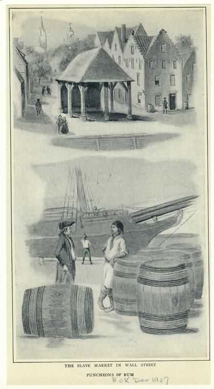 Slave market New York 1730